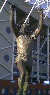 Billy Bremner Statue Outside Elland Road Category:Leeds United A.F.C.